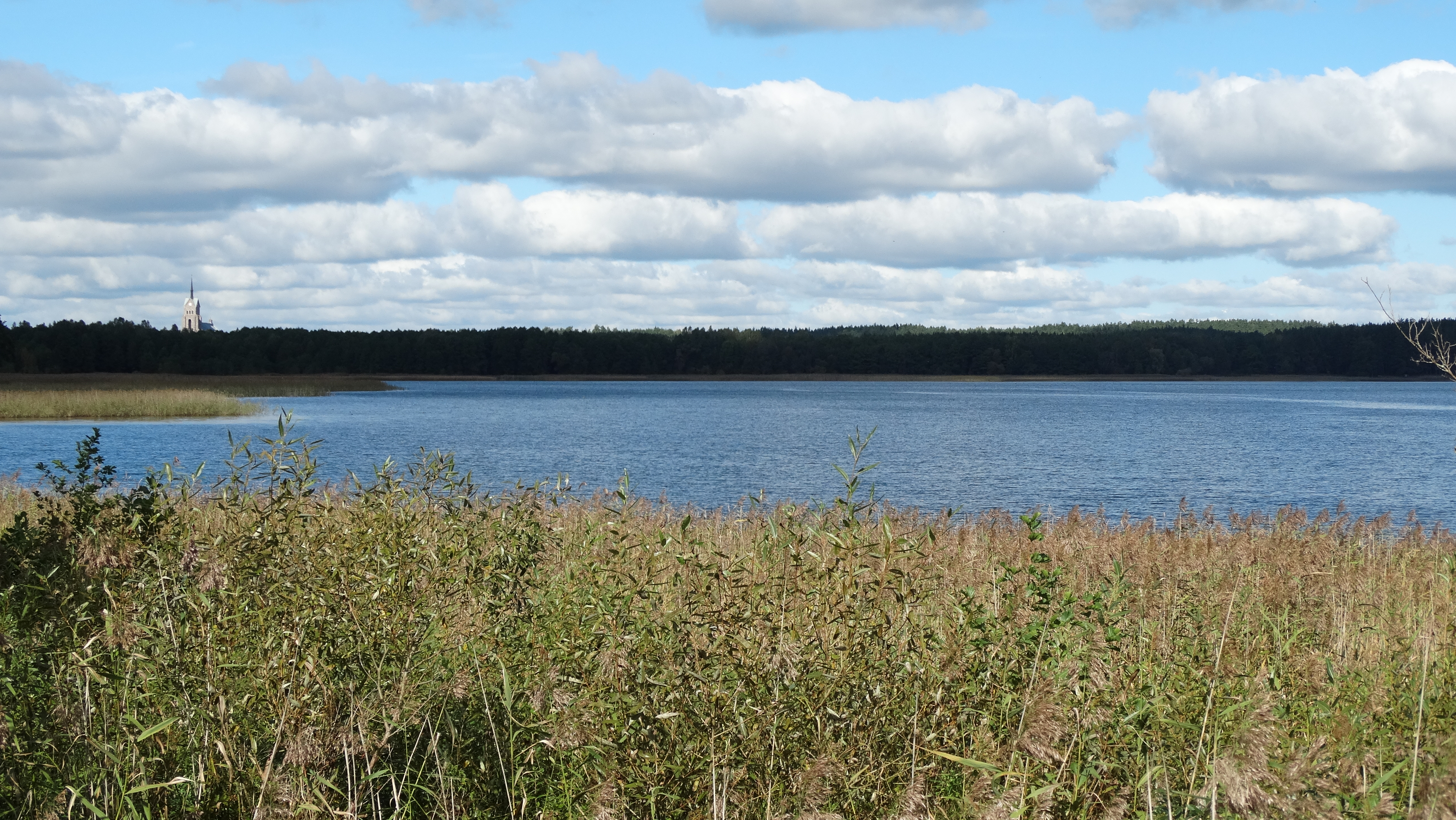 Luodis lake by Salakas, Zarasai District, Lithuania